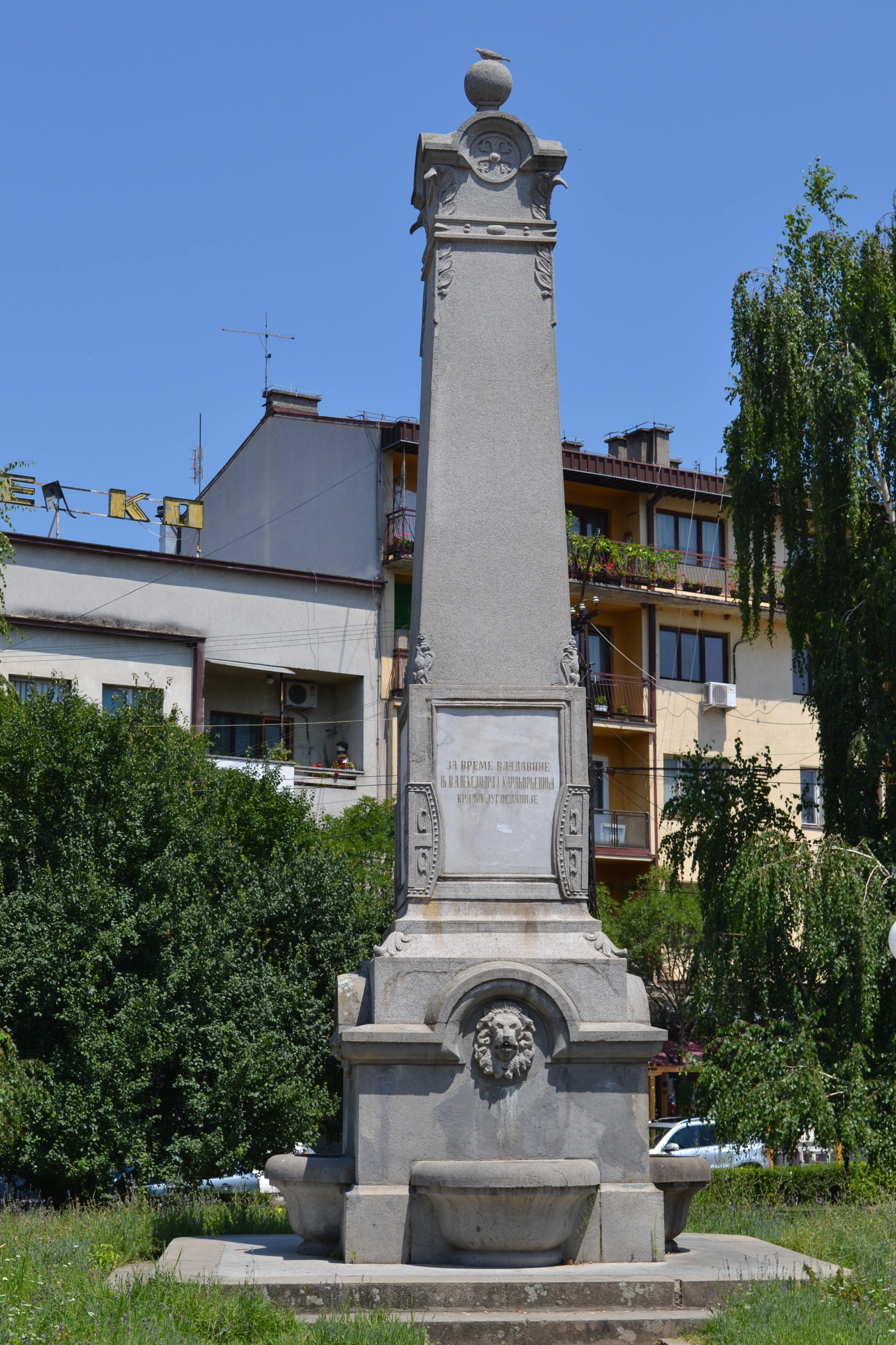 Monument to fallen patriots 1809-1918 Vlasotince